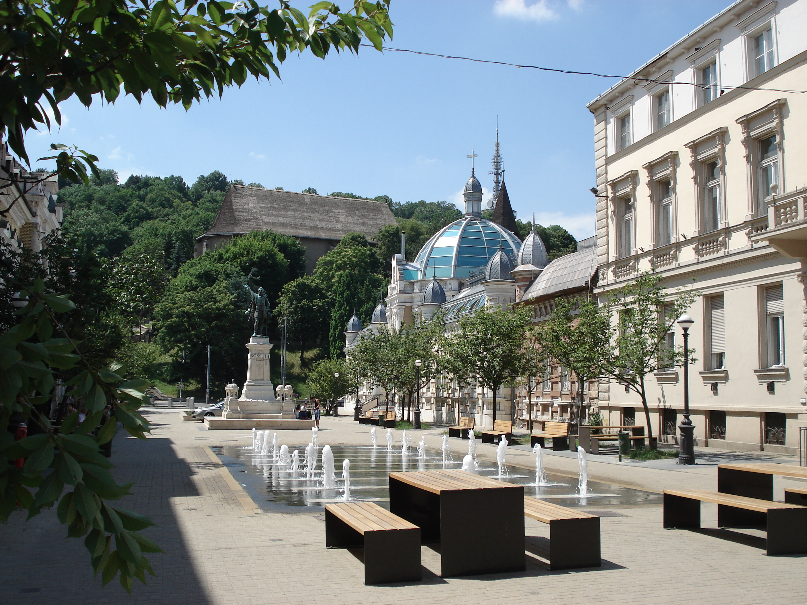 Erzsébet Square in Miskolc, Hungary, 2011